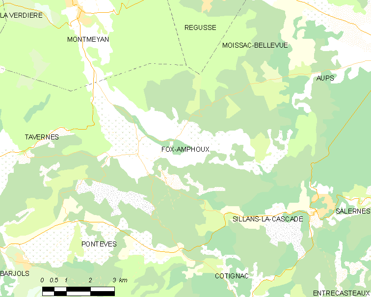 Map of French municipality Fox-Amphoux